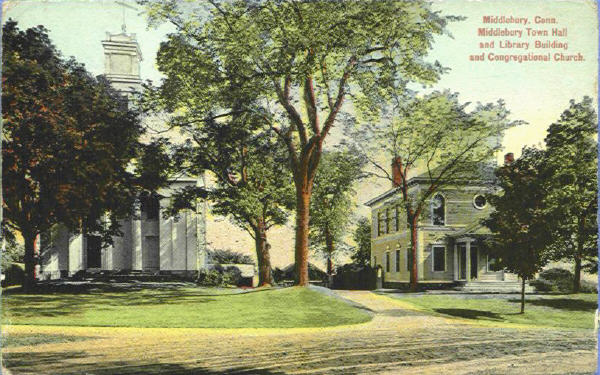 Postcard: Library and Town Hall, Middlebury, Connecticut, 1910 postcard Description: Caption reads: Middlebury, Conn. Middlebury Town Hall and Library Building and Congregational Church" Store Web page states: "Postcard, Pub by The Hugh C Leighton Co, Portland, Me, [...] Postally Used - PM Seymour, Conn July 18, 1910, One Cent Stamp Intact